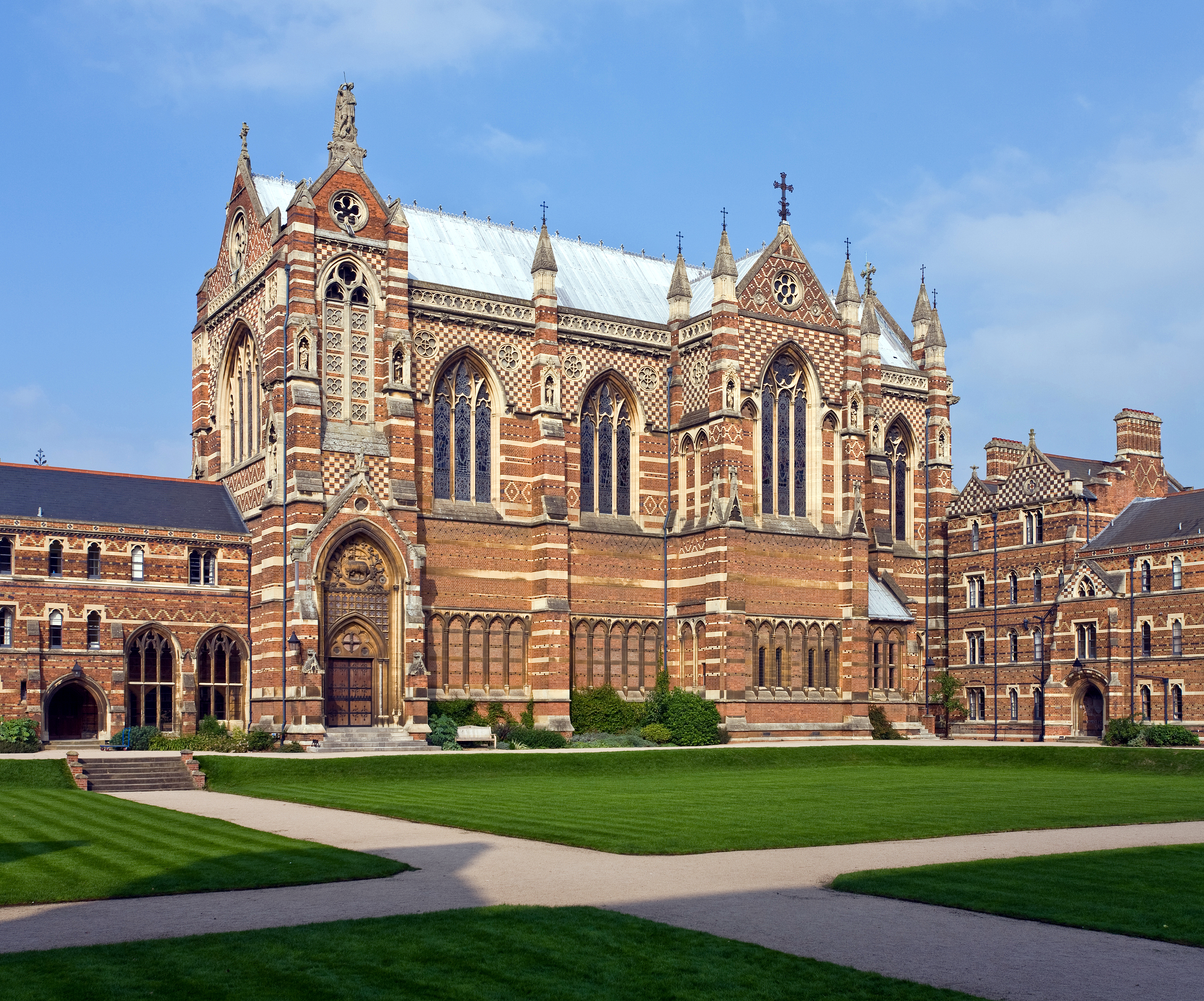 Keble College Chapel, Oxford, England, seen across Liddon Quad.Taken by myself with a Canon 5D and 17-40mm f/4L lens.